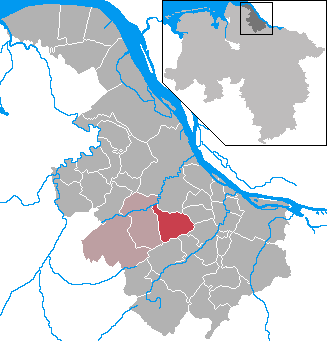 This map shows the area of the Gemeinde (municipality) Deinste in the Landkreis (district) Stade, Lower Saxony, Germany.